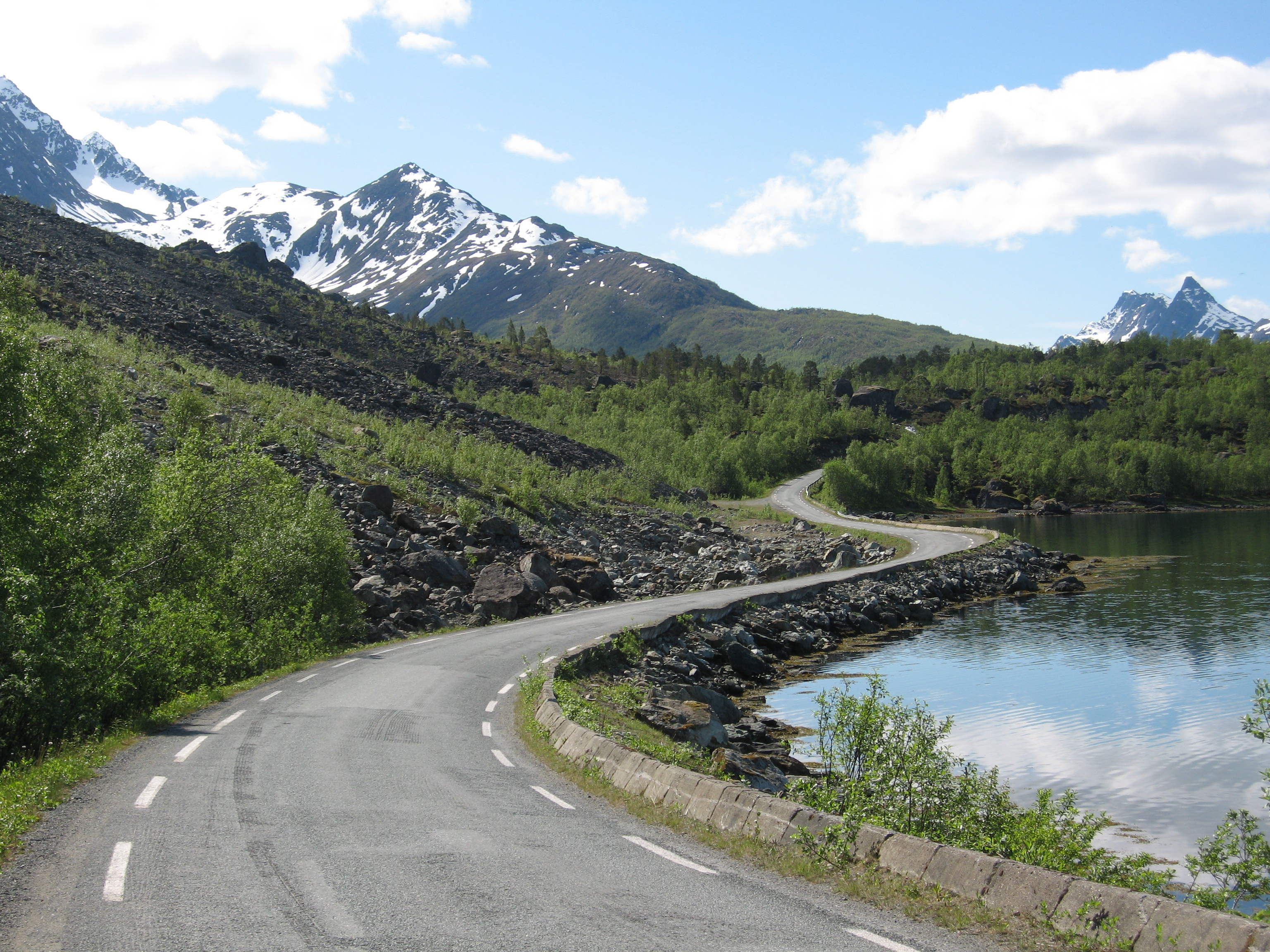 Fylkesvei 293 (Troms) at Holmbuktura in Ullsfjord, Tromsø, Norway